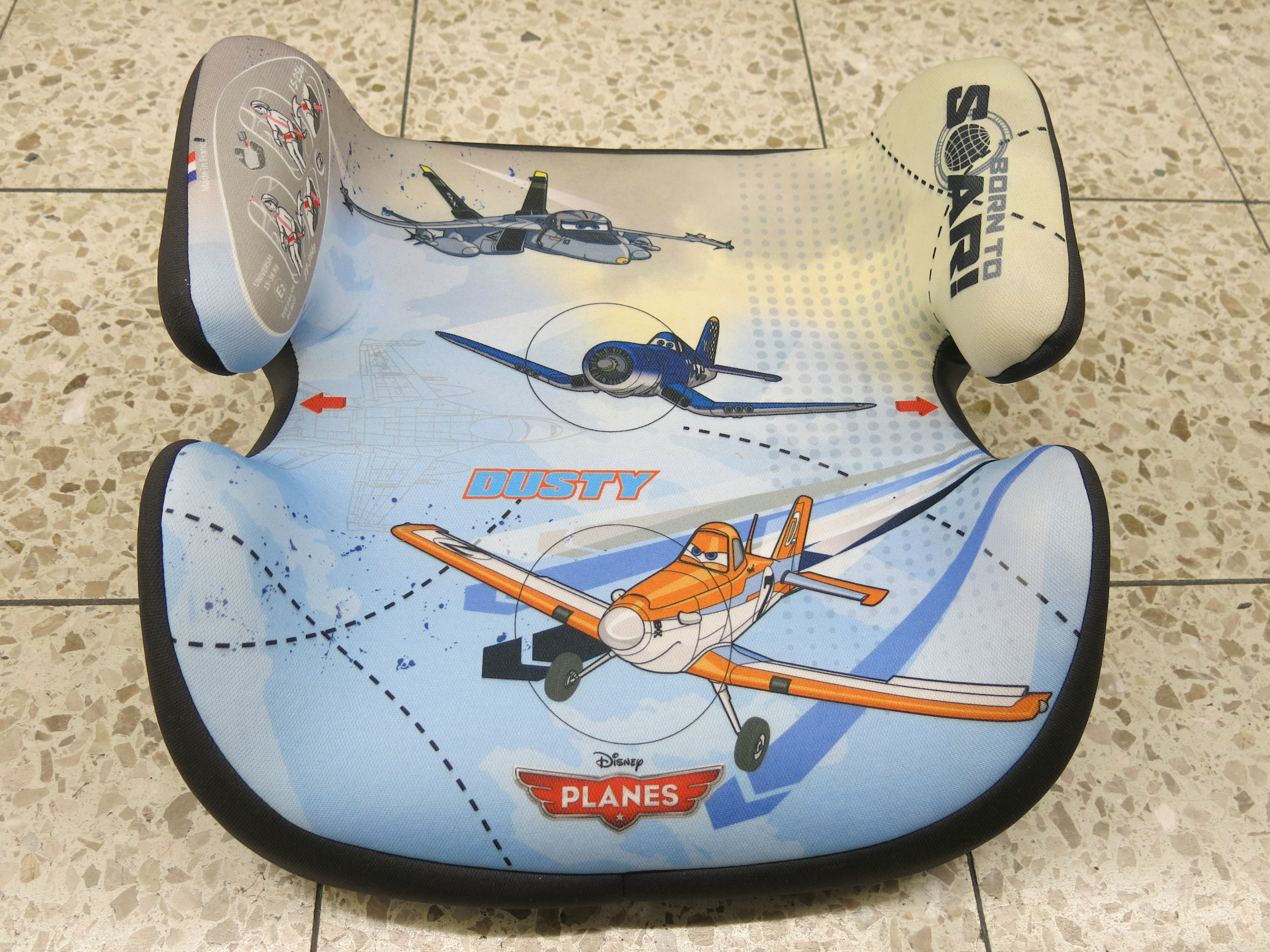 Child seat booster seat, approved to ECE-R 44/04, class 2 and 3 (15 to 36 kg)